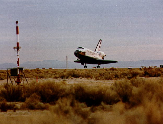 Landing view of the Columbia at the end of the STS-5 mission at Edwards Air Force Base, California on Nov. 16, 1982. The nose landing gear of Columbia nears touchdown on Runway 22 at Edwards AFB in southern California